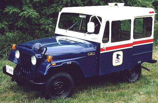 I took this picture of my old 1975 Jeep DJ-5D to add to the Jeep DJ page. Enjoy it world!